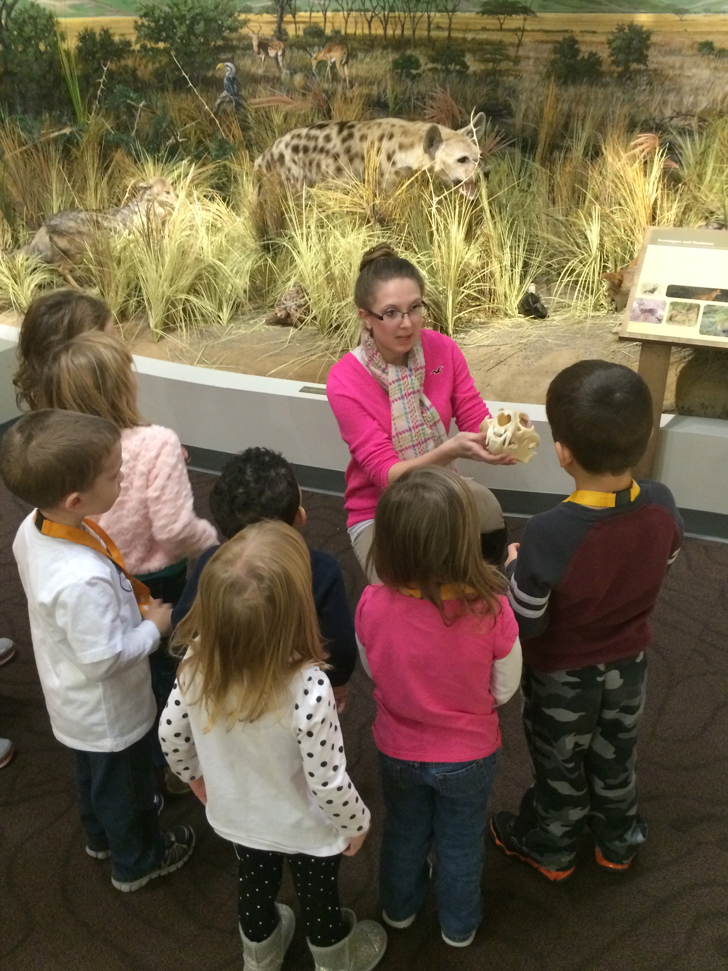 Elementary school group tour